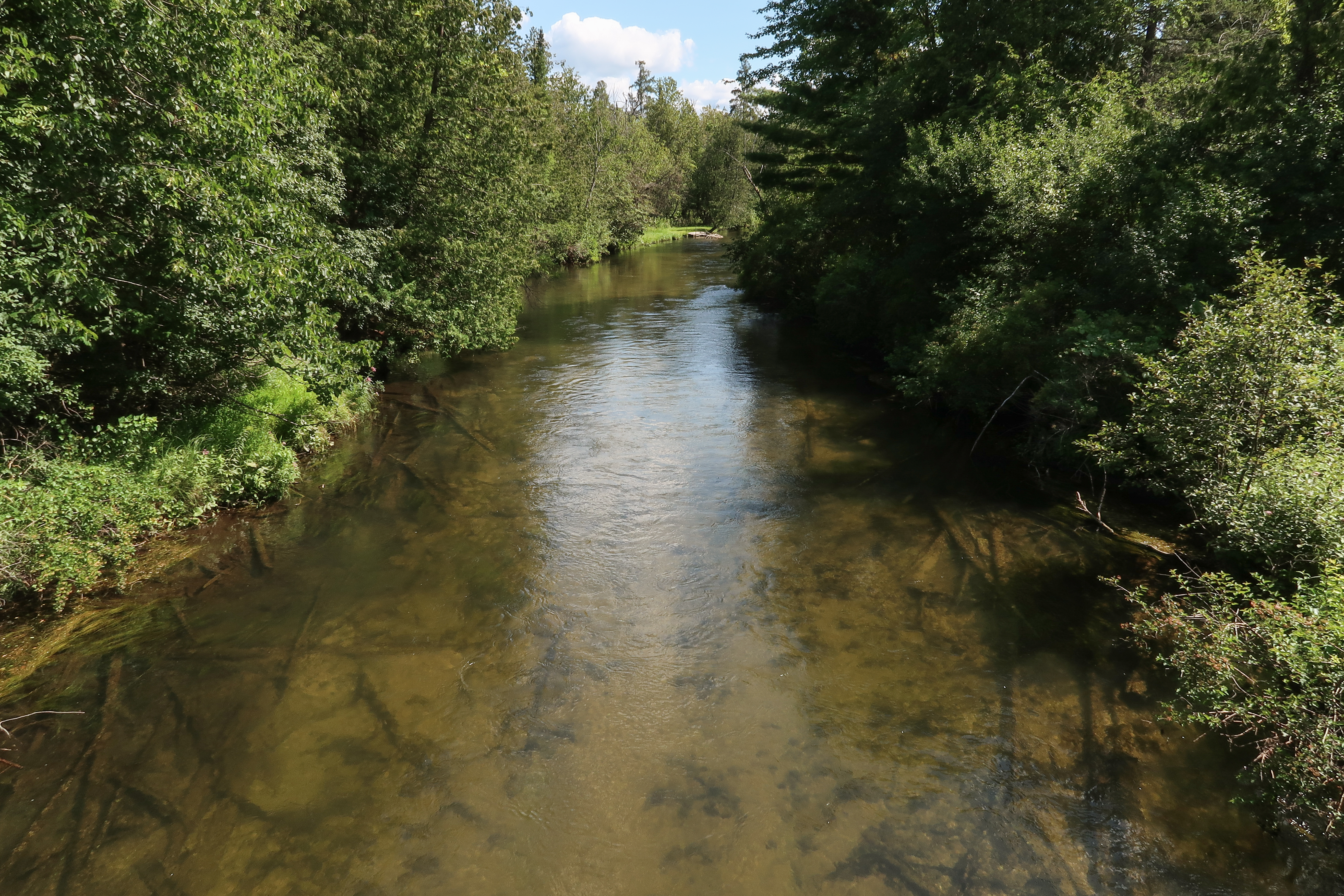 The Jordan River as viewed from Webster Bridge in Jordan Township in Antrim County, Michigan.